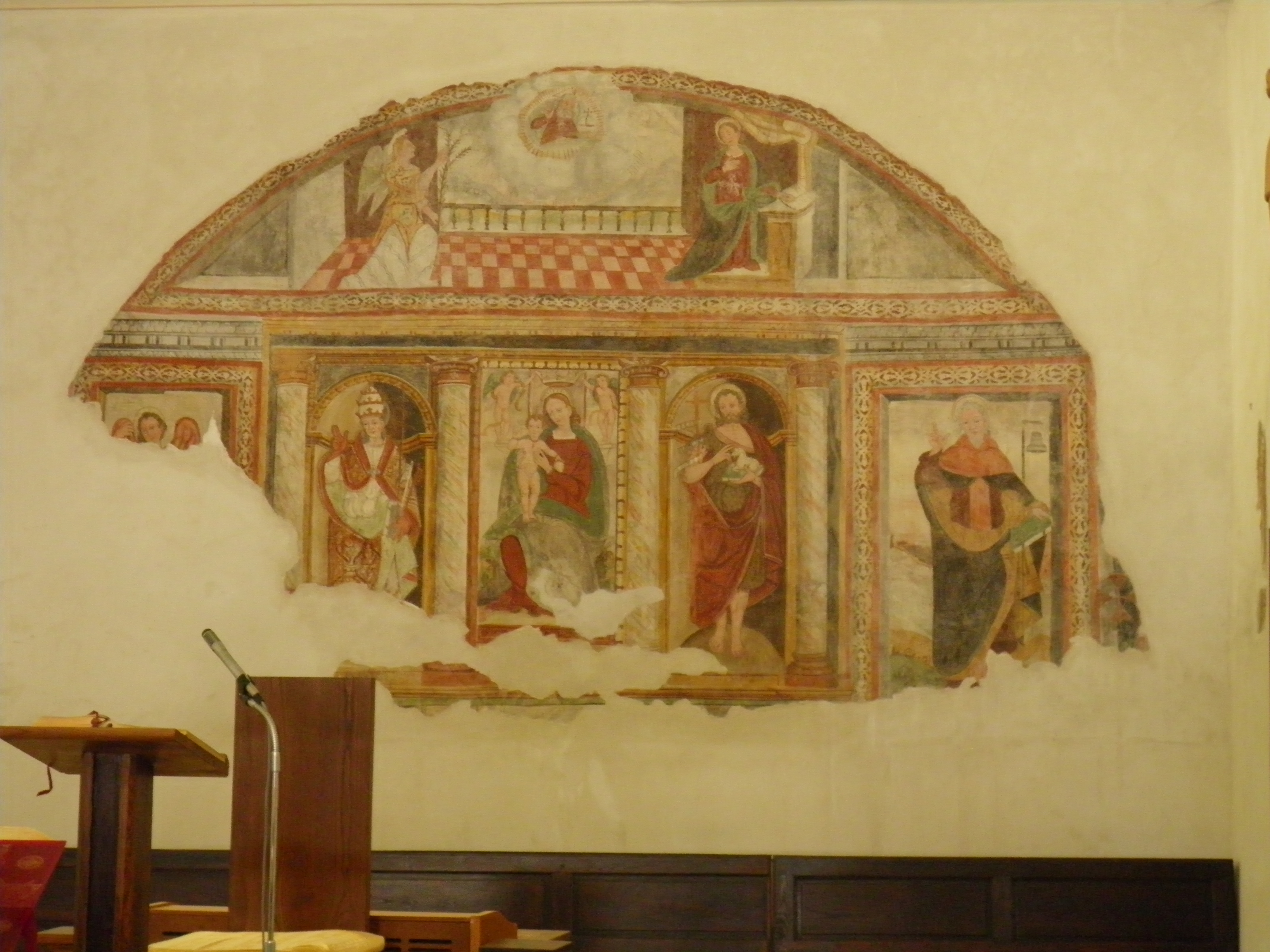 Fresco of the Annunciation and some Saints, in the church of Alpette, Turin, Italy.